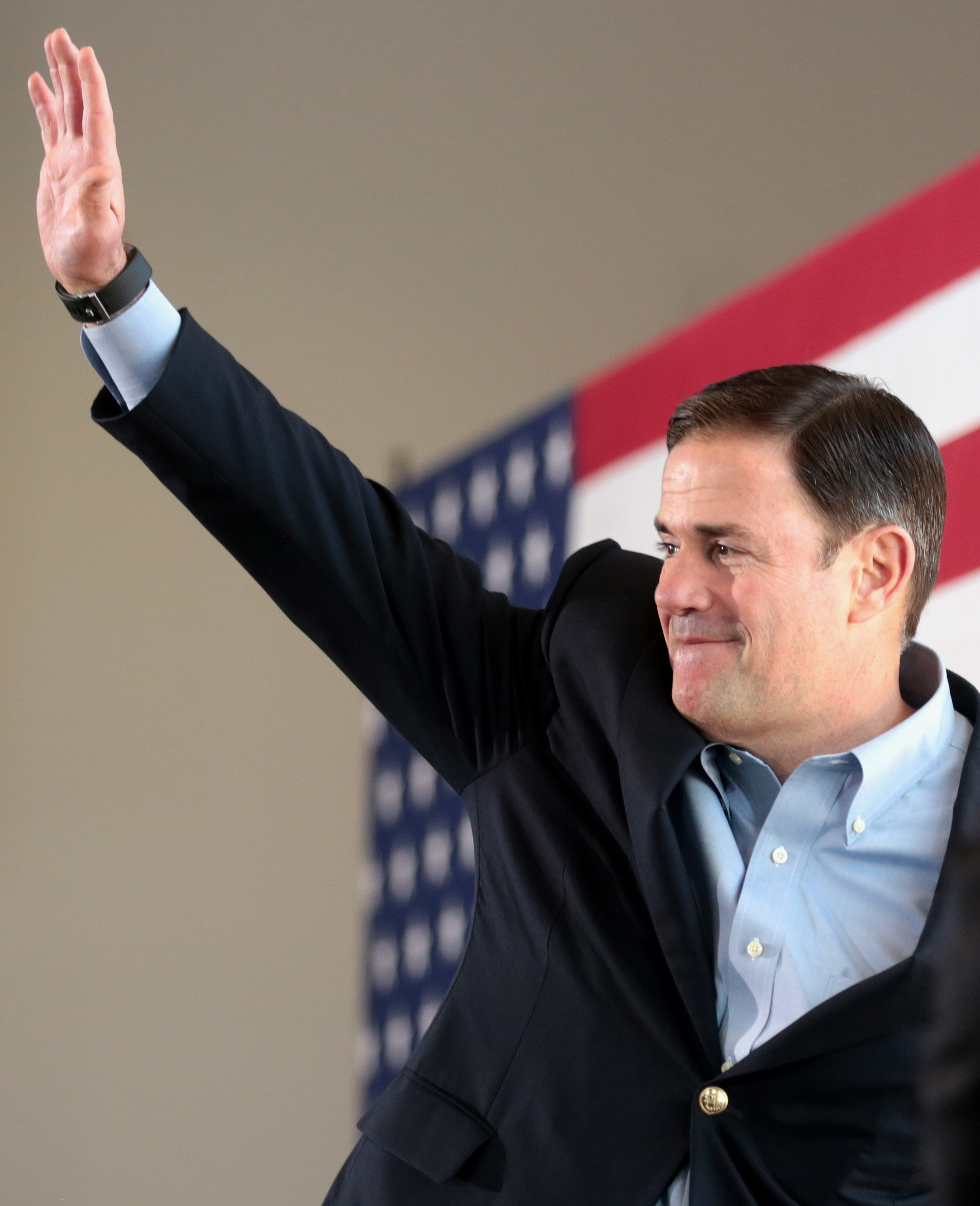 Doug Ducey speaking at an event in Gilbert, Arizona.